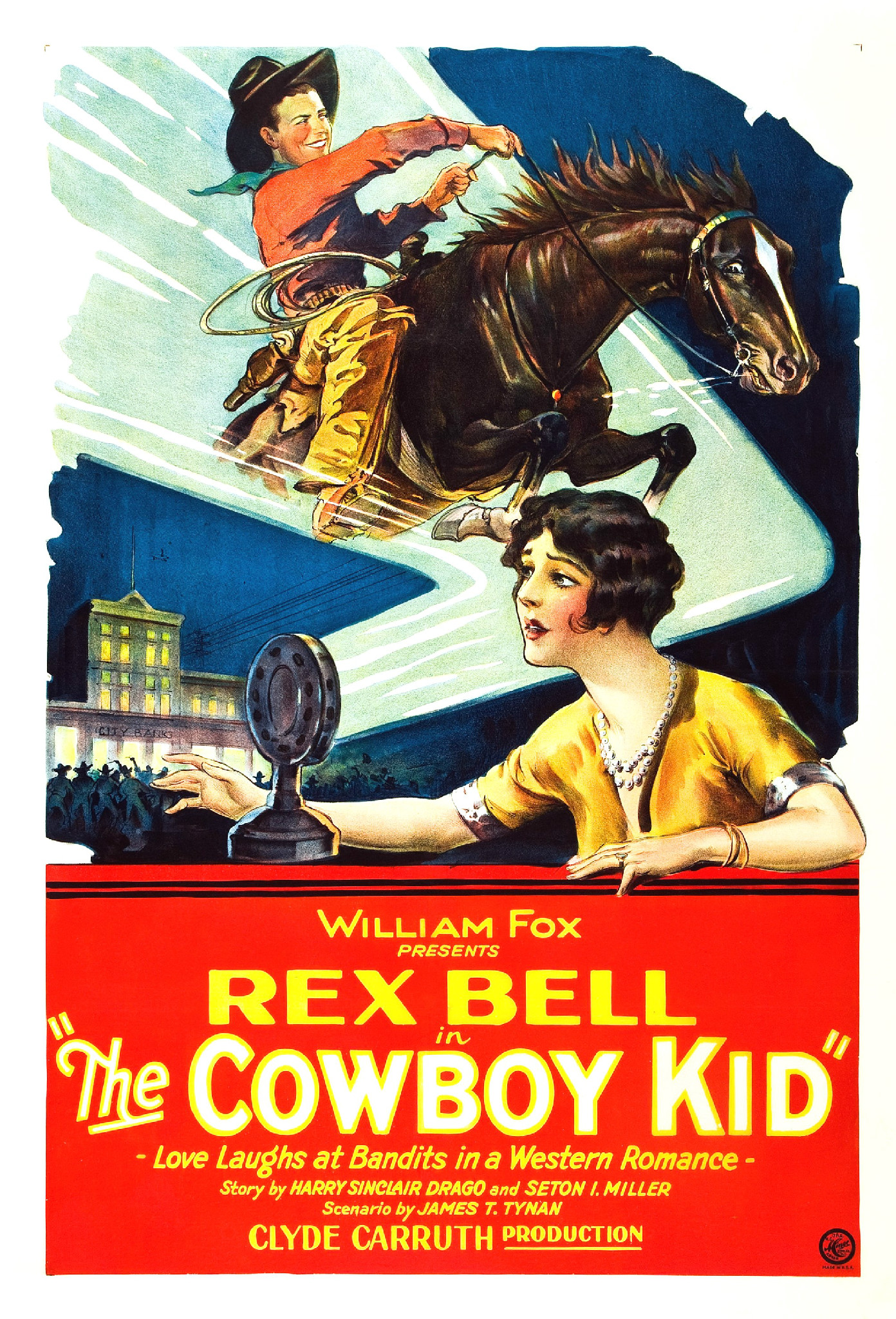 Poster for the American western film The Cowboy Kid (1928). There are no copyright marks. At bottom right is a logo for H.C Miner Company-they printed the poster.